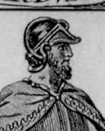 King Edward the Elder of England